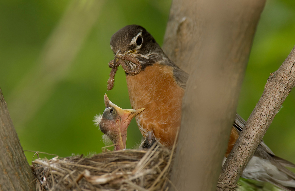 american robin in nest with chick and worm